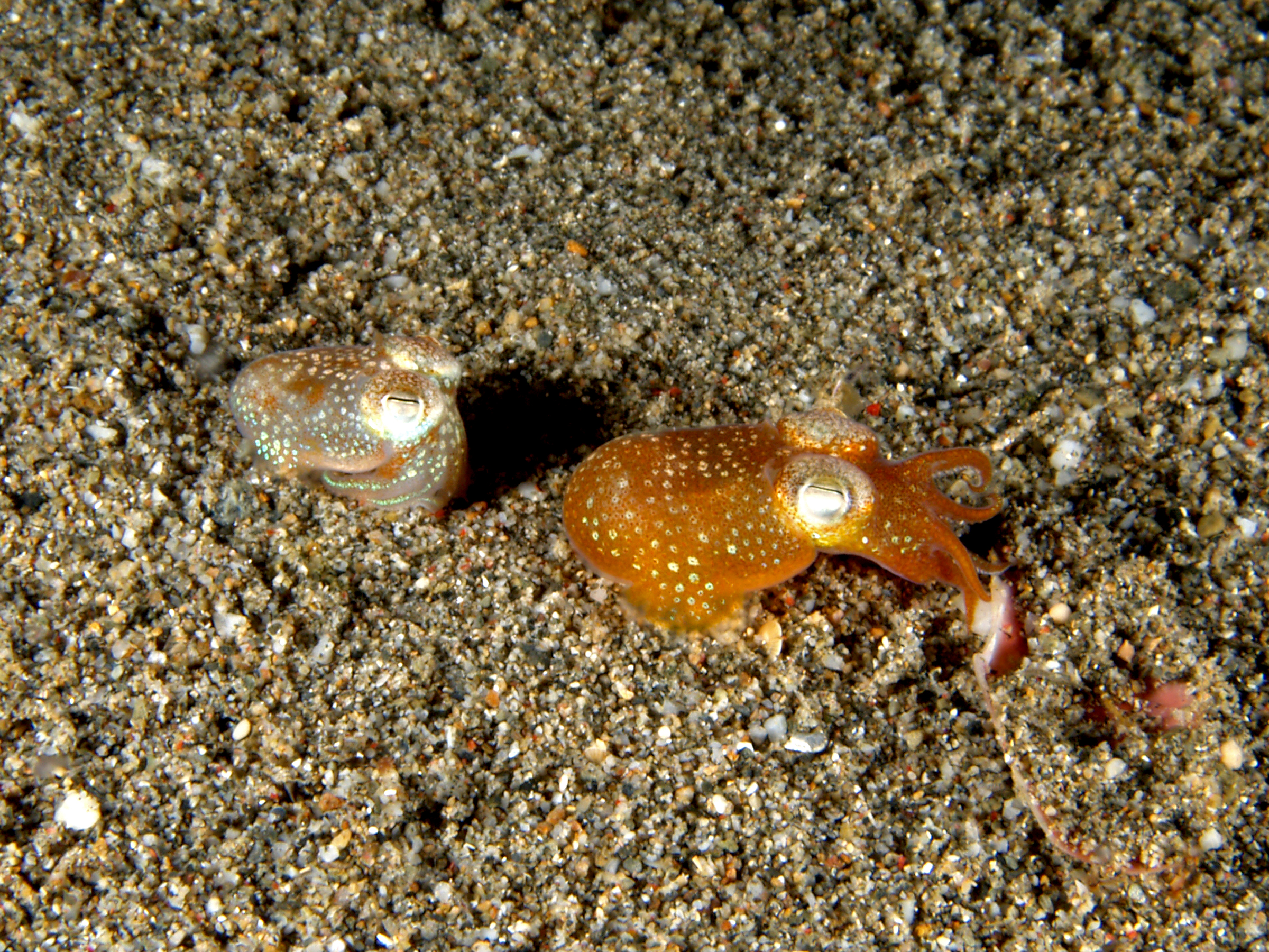 Bobtail squid in two of its color forms, white and orange. These small squid, no more than an inch long can change their color rapidly.